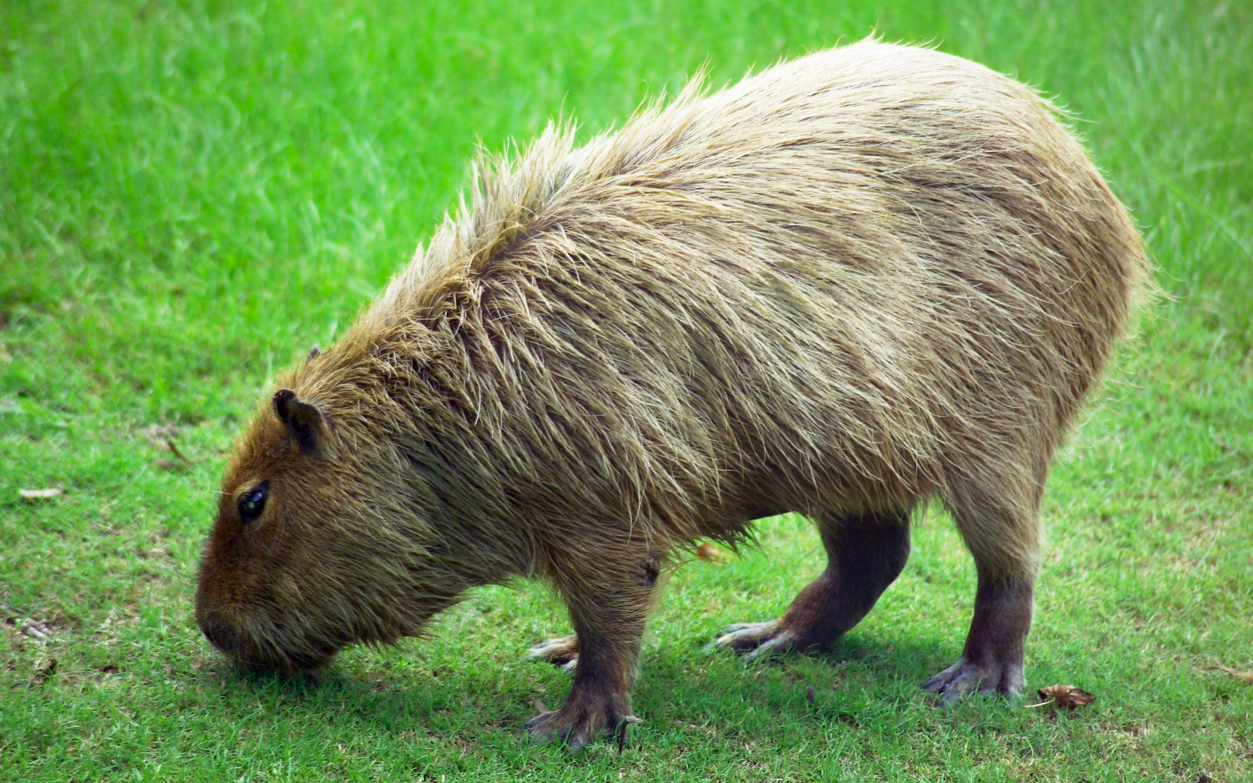 Photo of a Capybara, formatted (and sized) as a widescreen computer desktop background.